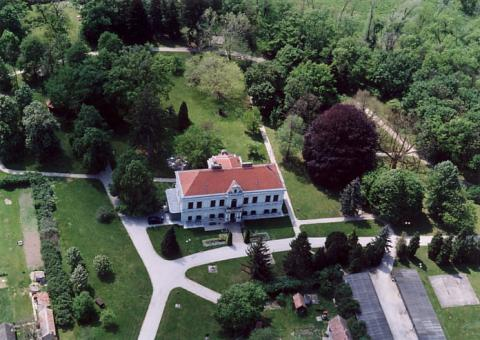 Markusovszky Mansion. - Rákóczi Ferenc st, Keményegerszeg, Vasegerszeg, Hungary. Aerialphotgraphy This is a photo of a monument in Hungary, Identifier: 9472